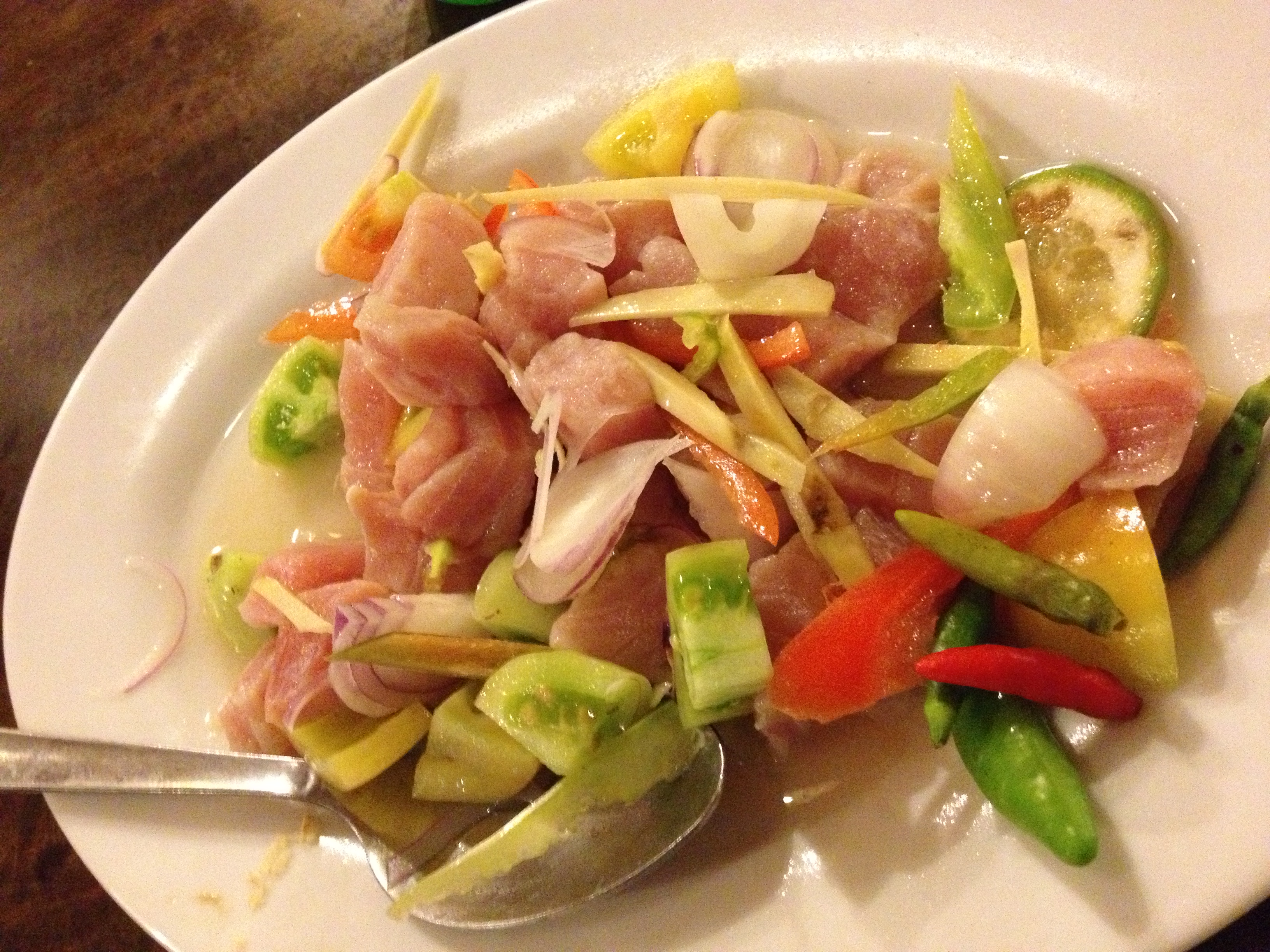 a common Philippine dish or Filipino food consisting of fresh fish mixed with vinegar, onions, chilies and ginger